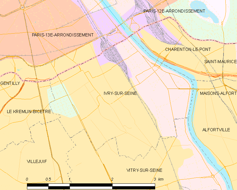 Map of French municipality Ivry-sur-Seine